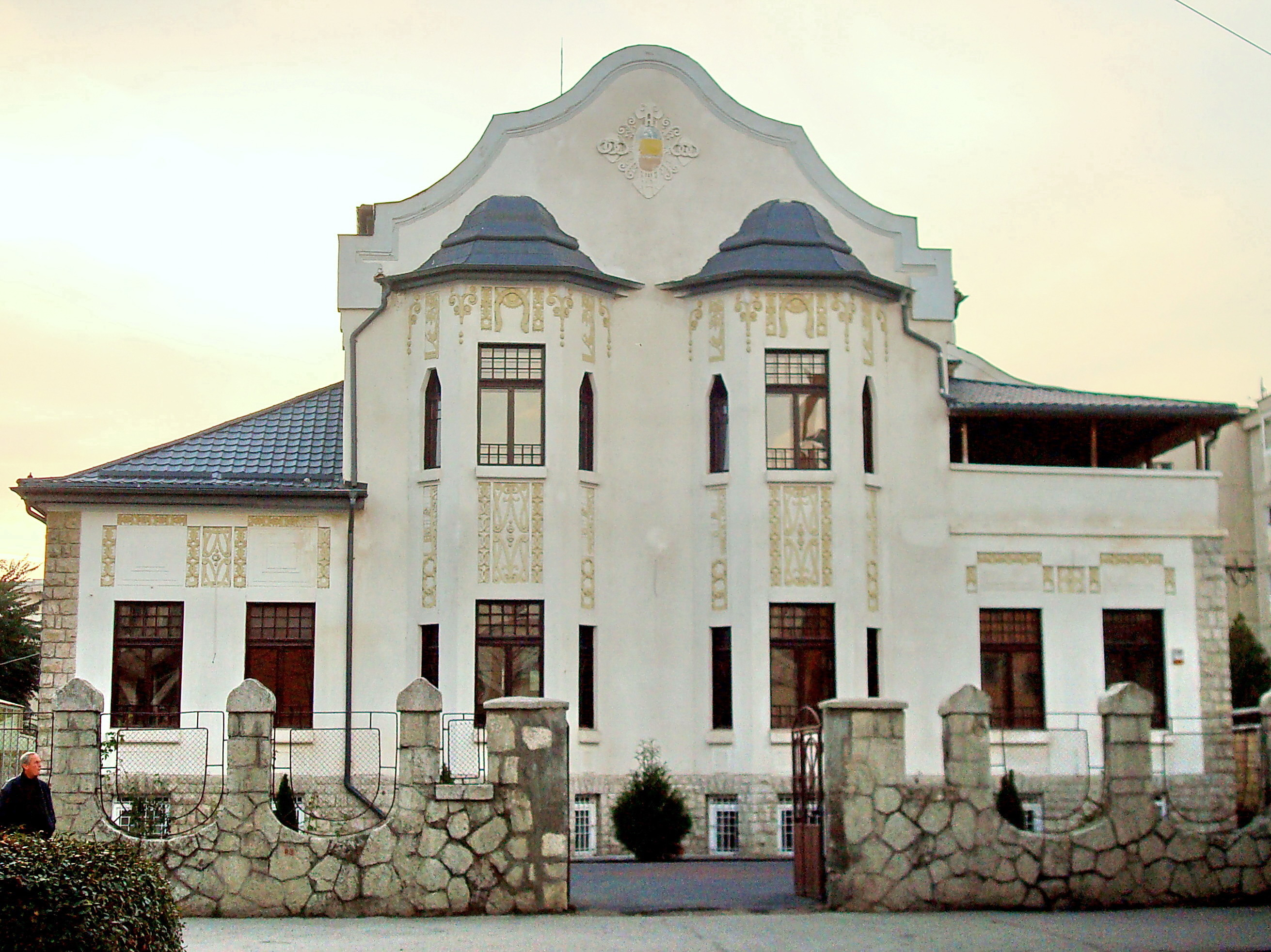 Vila Mendel, 25 Dr.Ioan Ratiu Street